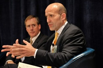 Photograph of Martin Chilcott